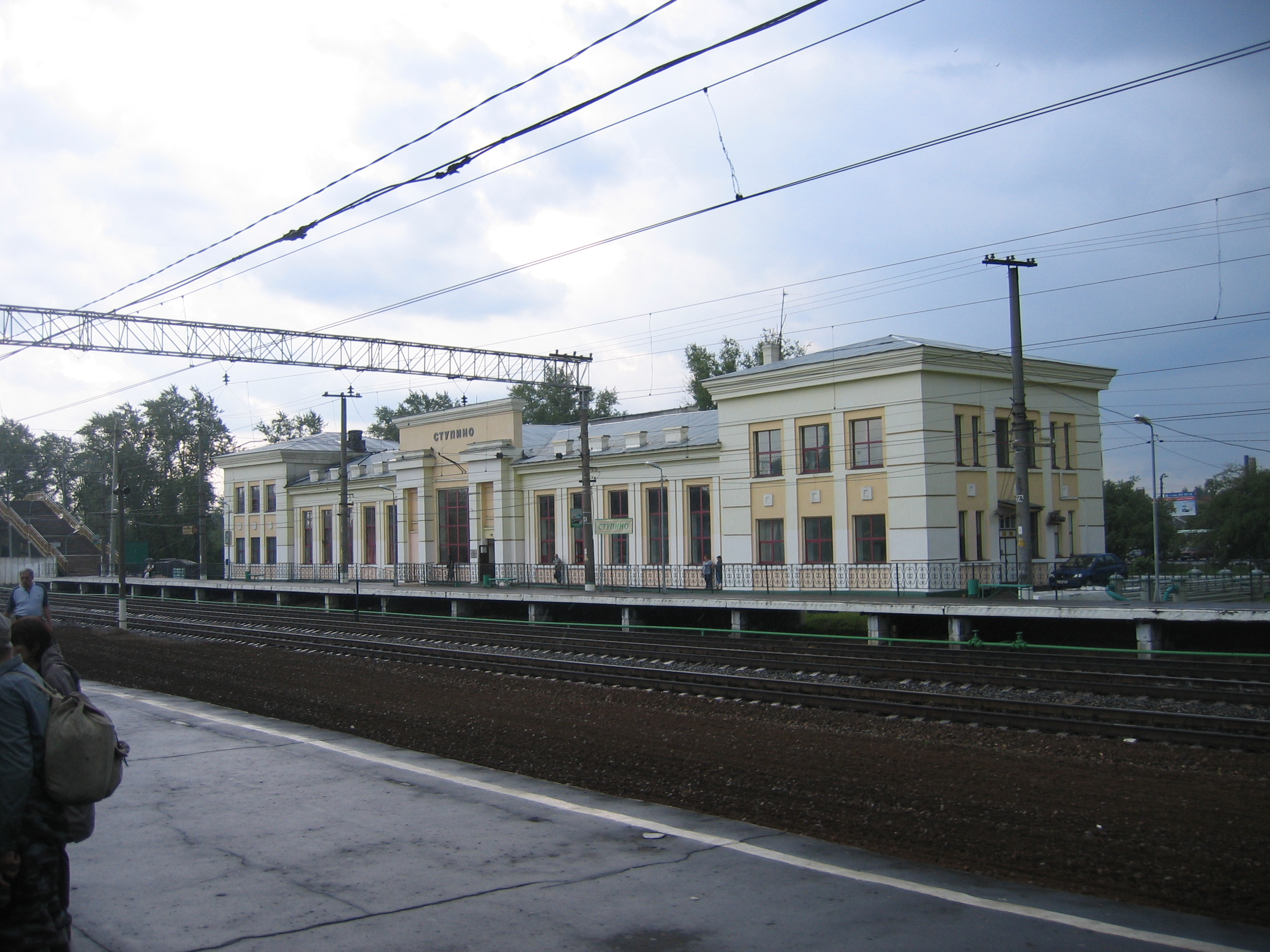 Train station Stupino, Moscow Oblast, Russia